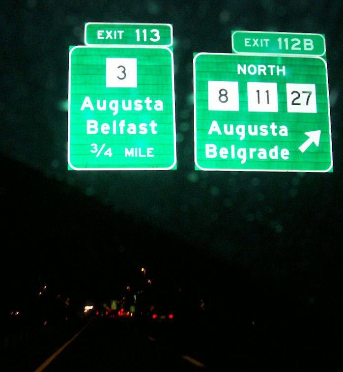 Photo of I-95's exit 112B for Belgrade, Maine, USA.